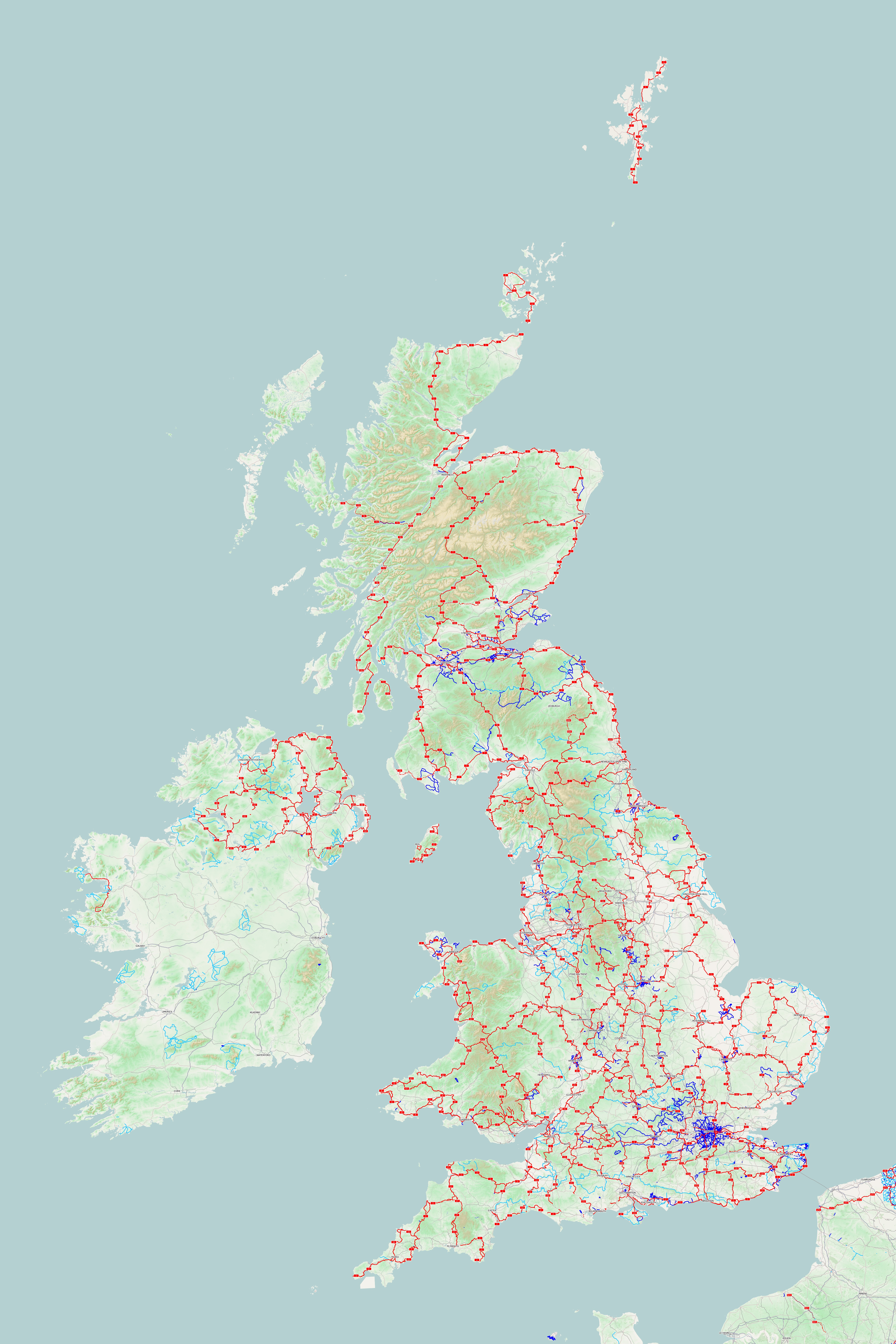 High resolution render of National Cycle Network from OpenStreetMap. Montage was created using tiles from cyclemap tileserver and script based on